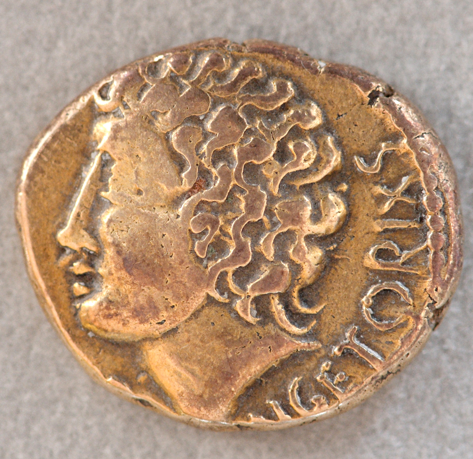 Stater of Vercingetorix (72 BC-46 BC), chieftain of the Arverni.